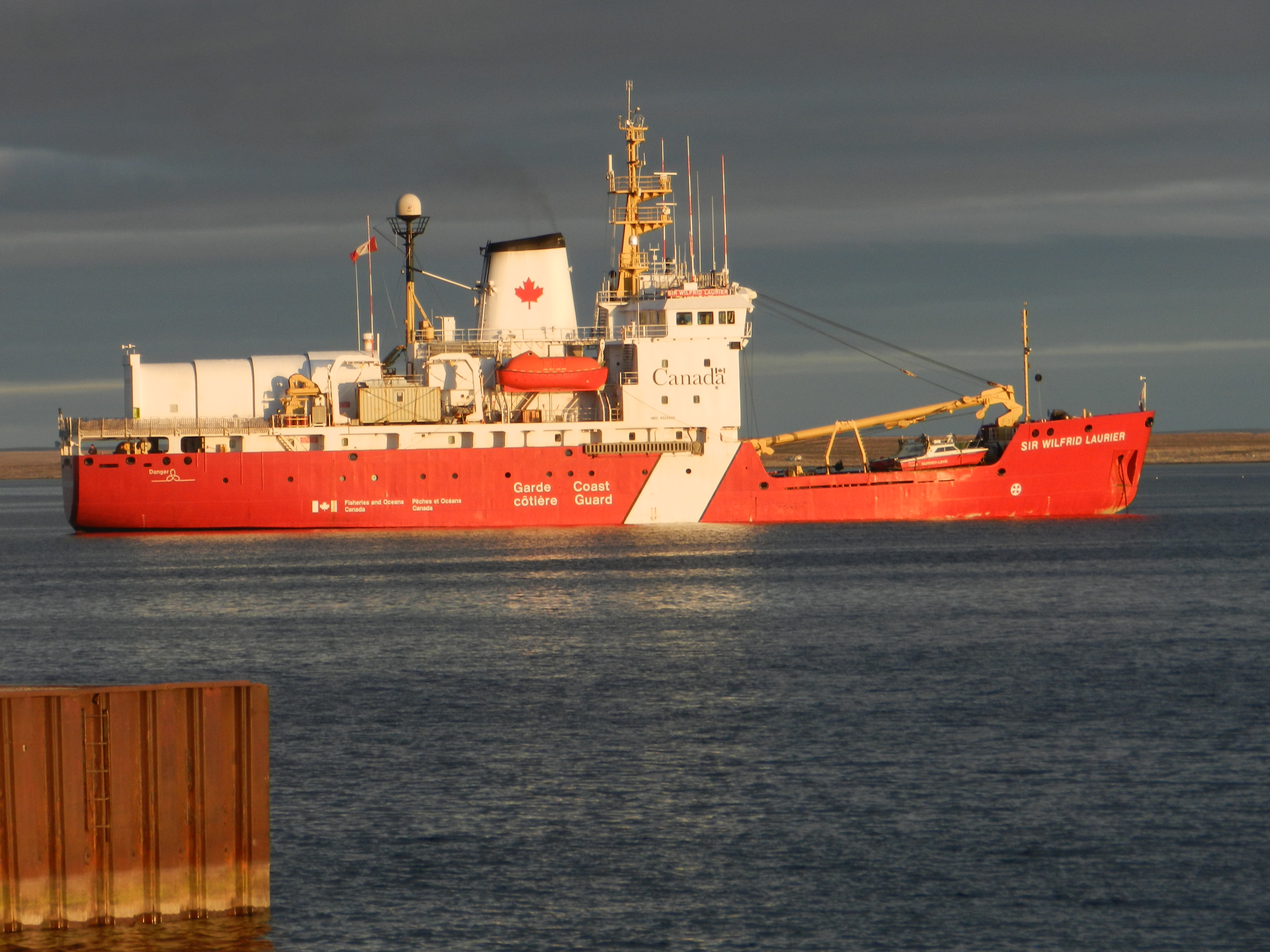 The CCGS Sir Wilfrid Laurier in Cambridge Bay as part of the 2014 search that found the lost Franklin ship.